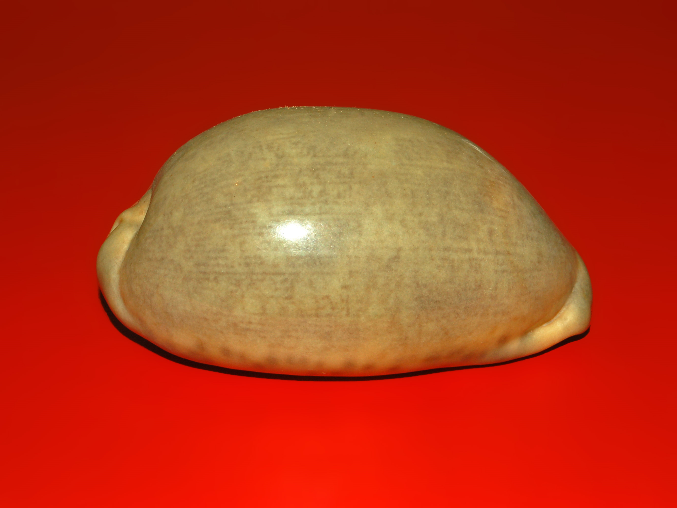 Mauritia eglantina griseoviridis